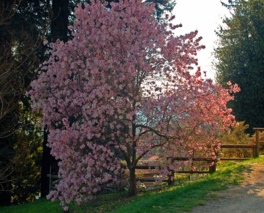 Pink-flowered plant of Magnolia × loebneri 'Leonard Messel' at Burcina Park, Biella, Italy